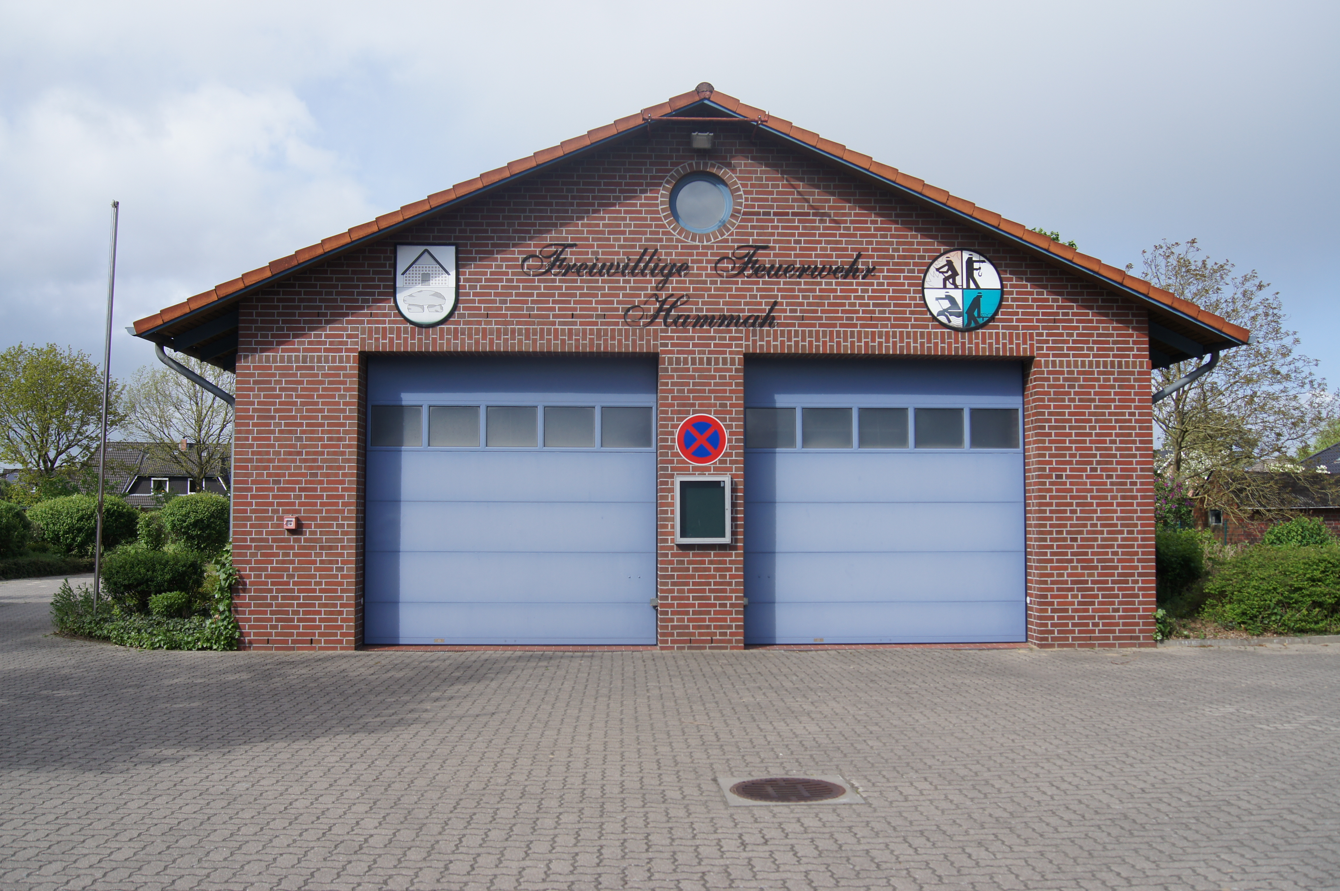 Hammah, Germany: Fire Station